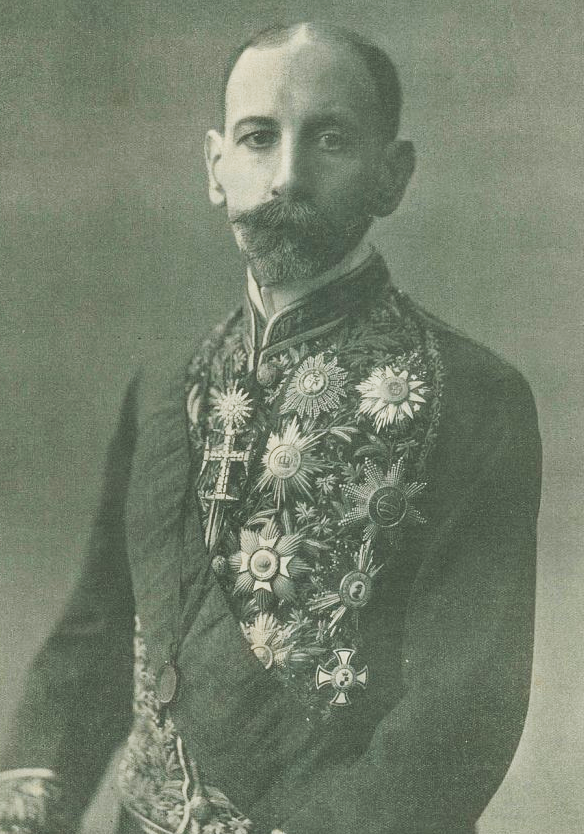 Viscount of Pindela (1852-1922), portuguese politician, diplomat and colonial administrator.